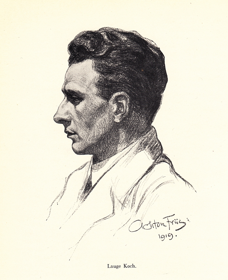 Portrait of polar explorer Lauge Koch by Achton Friis